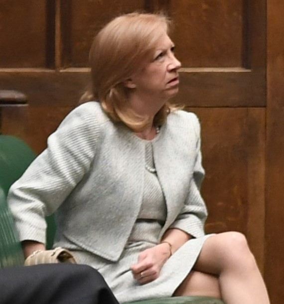 The Right Honourable Dame Eleanor Fulton Laing, Dame Commander of the Most Excellent Order of the British Empire, Member of Parliament for Epping Forest